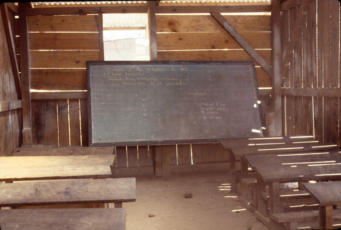 The first repatriation of refugees from the Mesa Grande camp in Honduras, returning to El Salvador through the El Poy border in October 1987